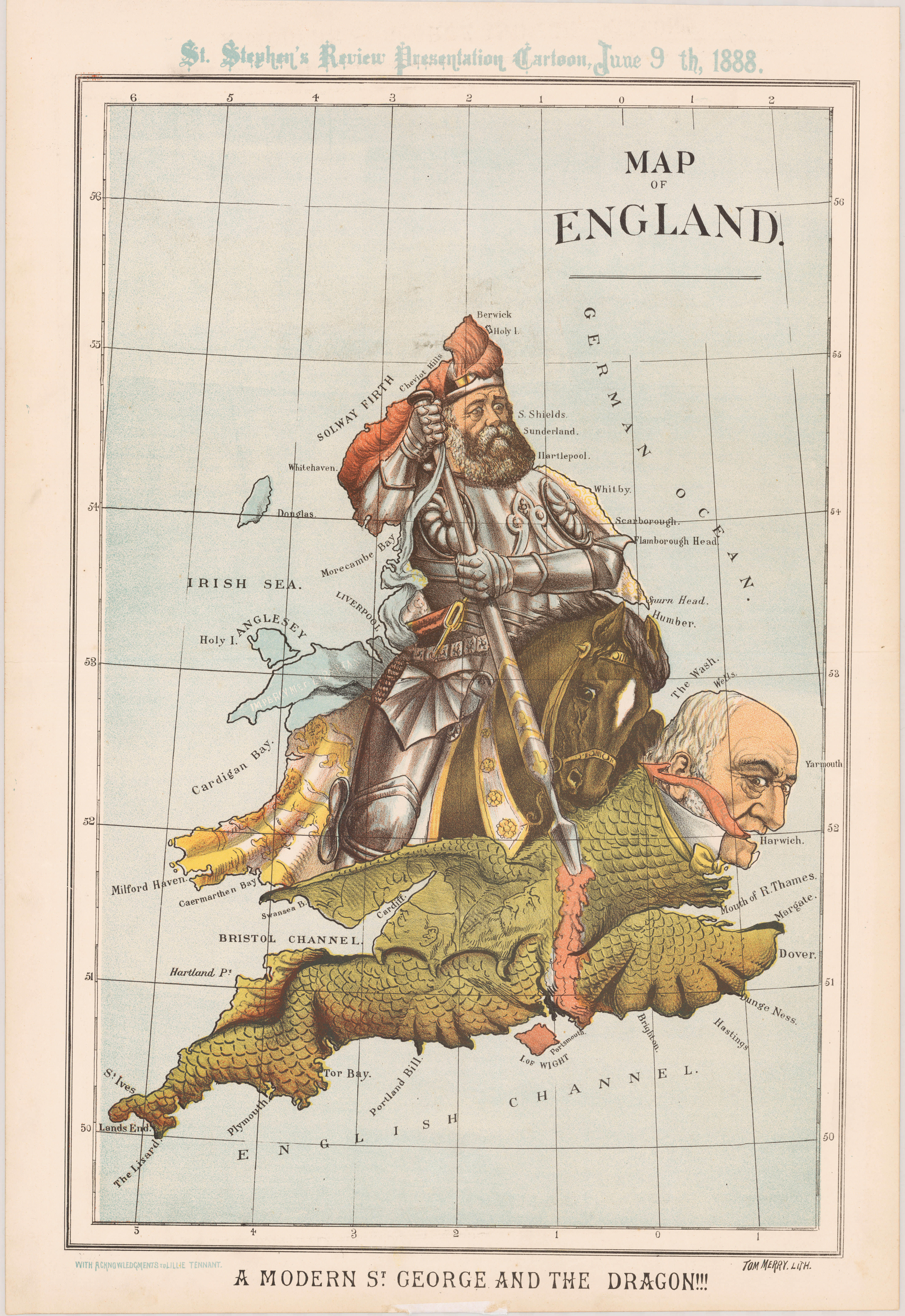 This map satirizes the Irish Home Rule crisis of 1886 and appeared two years later in the Conservative St. Stephen’s Review. ""